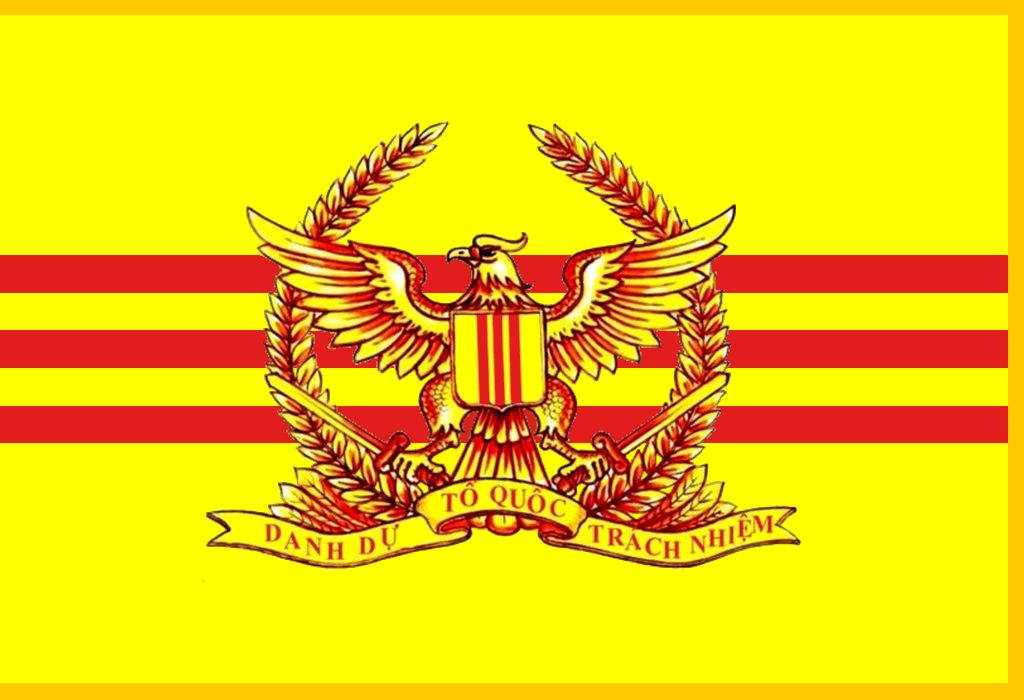 Flag of the Army of the Republic of Vietnam